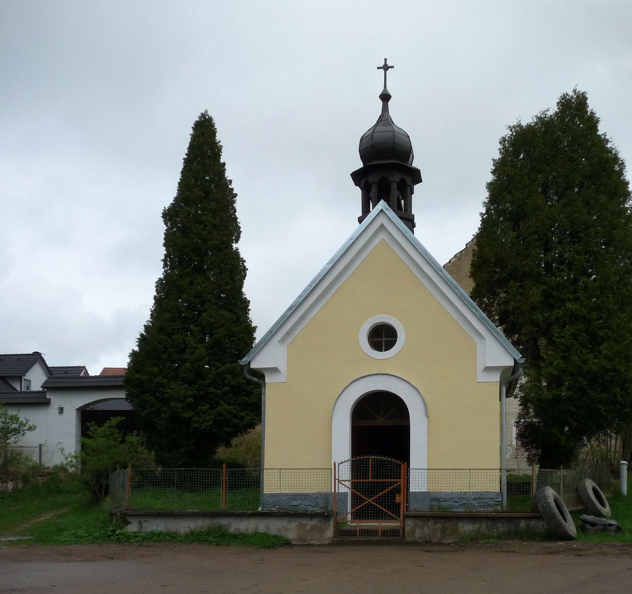 Holy Trinity Chapel in the village of Rašovice, Tábor district, Czech Republic